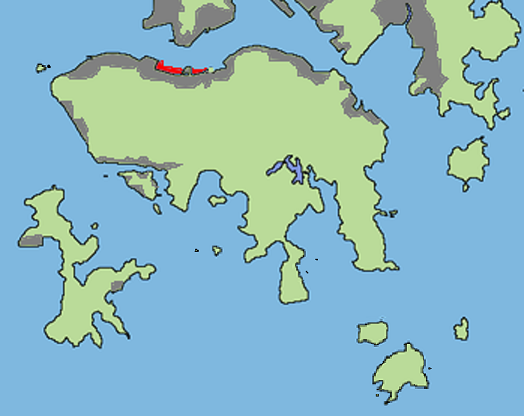 Hong Kong Island's land reclamation. 中文（香港）: 圖為香港島的填海概況，灰色代表已存在的填海地，紅色代表計劃中的中環及灣仔填海部份。